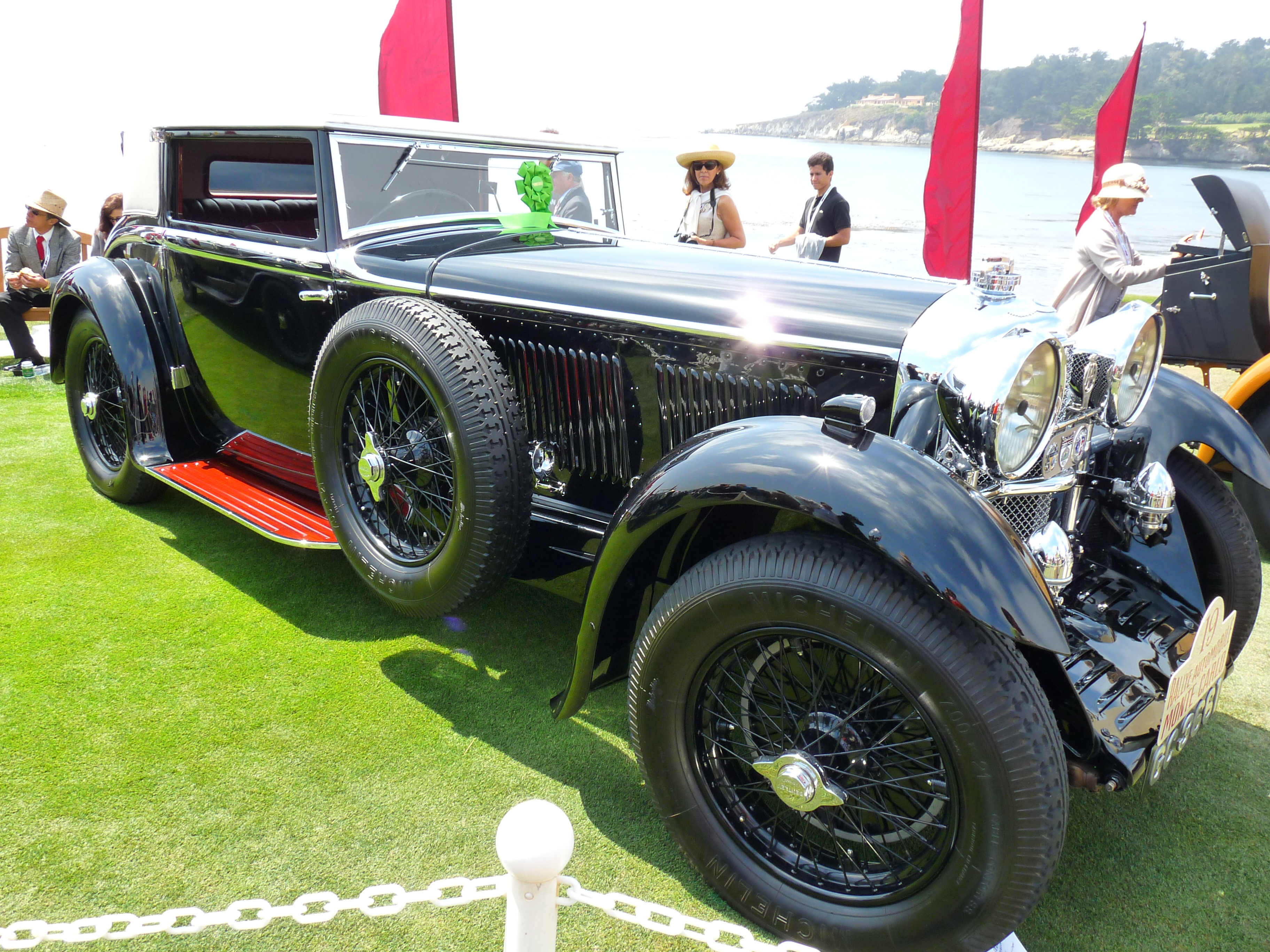 "This Bentley Speed Six Sportsman's Coupé was originally created for Commander Glen Kidston to compete in the 1930 Monte Carlo Rally. It has a Weymann body built by the J Gurney Nutting Limited. Weymann fabric bodywork has the advantage of being very strong yet light and flexible, with hardly a squeak being heard by its occupants. It is finished with layer upon layer of hand-sanded paint called Tole Souplé, giving the impression of polished metal panelling. Very few original Weymann cars exist, making this car extremely rare. It won its class here at the Pebble Beach Concours d'Elegance in 2001." from the noticeboard beside the car at Pebble Beach 2009. Bentley Speed Six coupé Weymann body by J Gurney Nutting 1930 Original coachwork Chassis LR2788 11ft 6inches wheelbase Engine HM2853 Speed Six Reg GC 3661 delivered January 1930 image of the car when new